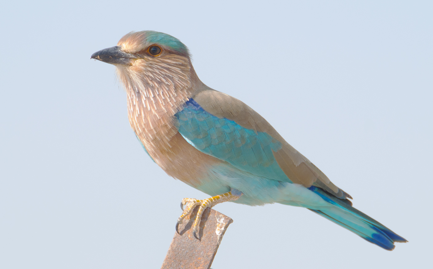 Indian Roller (Coracias benghalensis) is fairly common throughout India and is considered auspicious. This bird was shot at Taal Chhapar Black Buck Santuary, District Churu, Rajasthan.